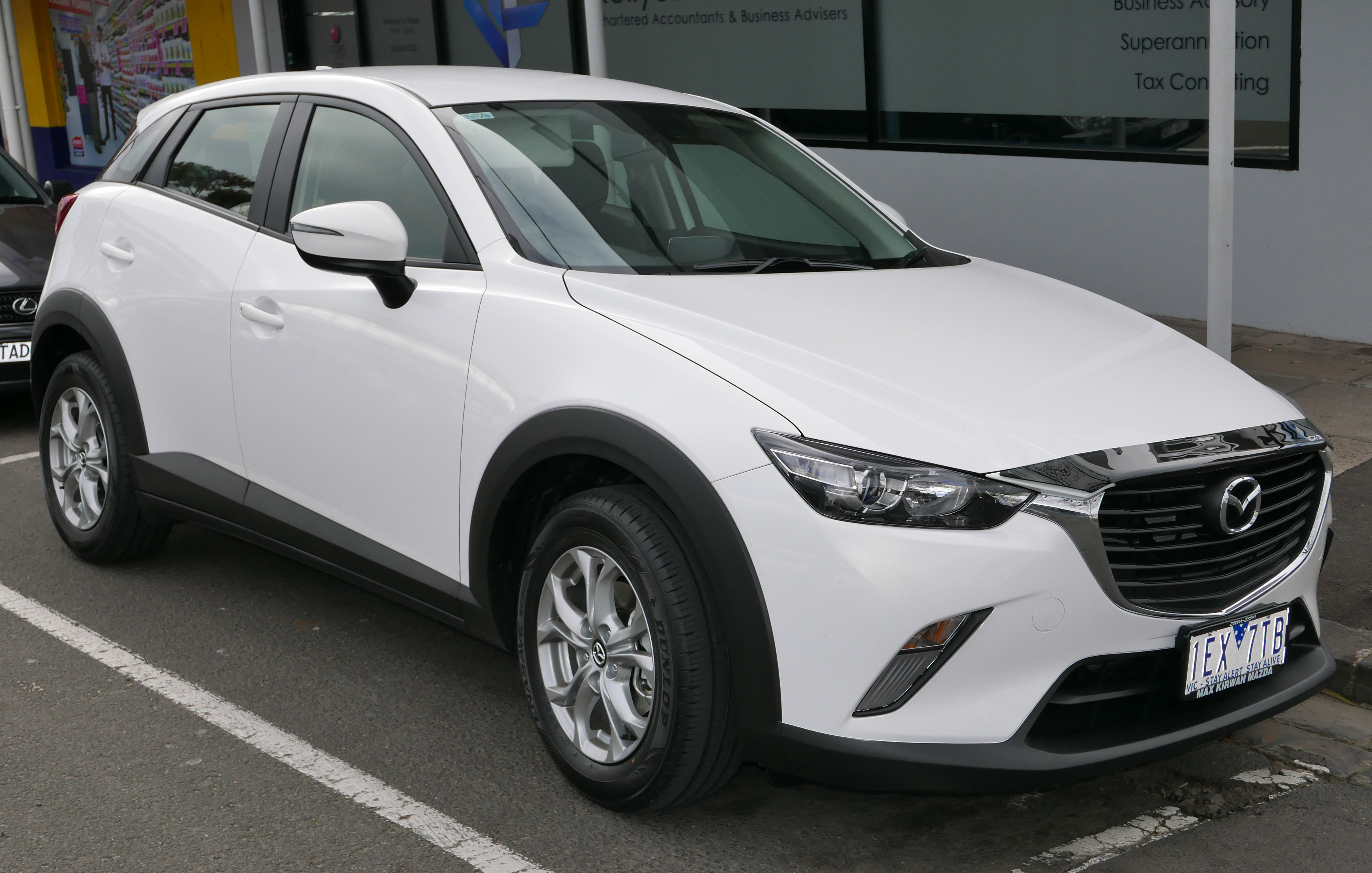 2015 Mazda CX-3 (DK) Maxx 2WD wagon. Photographed in Geelong, Victoria, Australia. Vehicle registration enquiry resultsJurisdictionVictoriaRegistration1EX7TBChassis codeJM0DK2W7600104981Engine codePE30771790Compliance date2015-06Year of manufacture2015